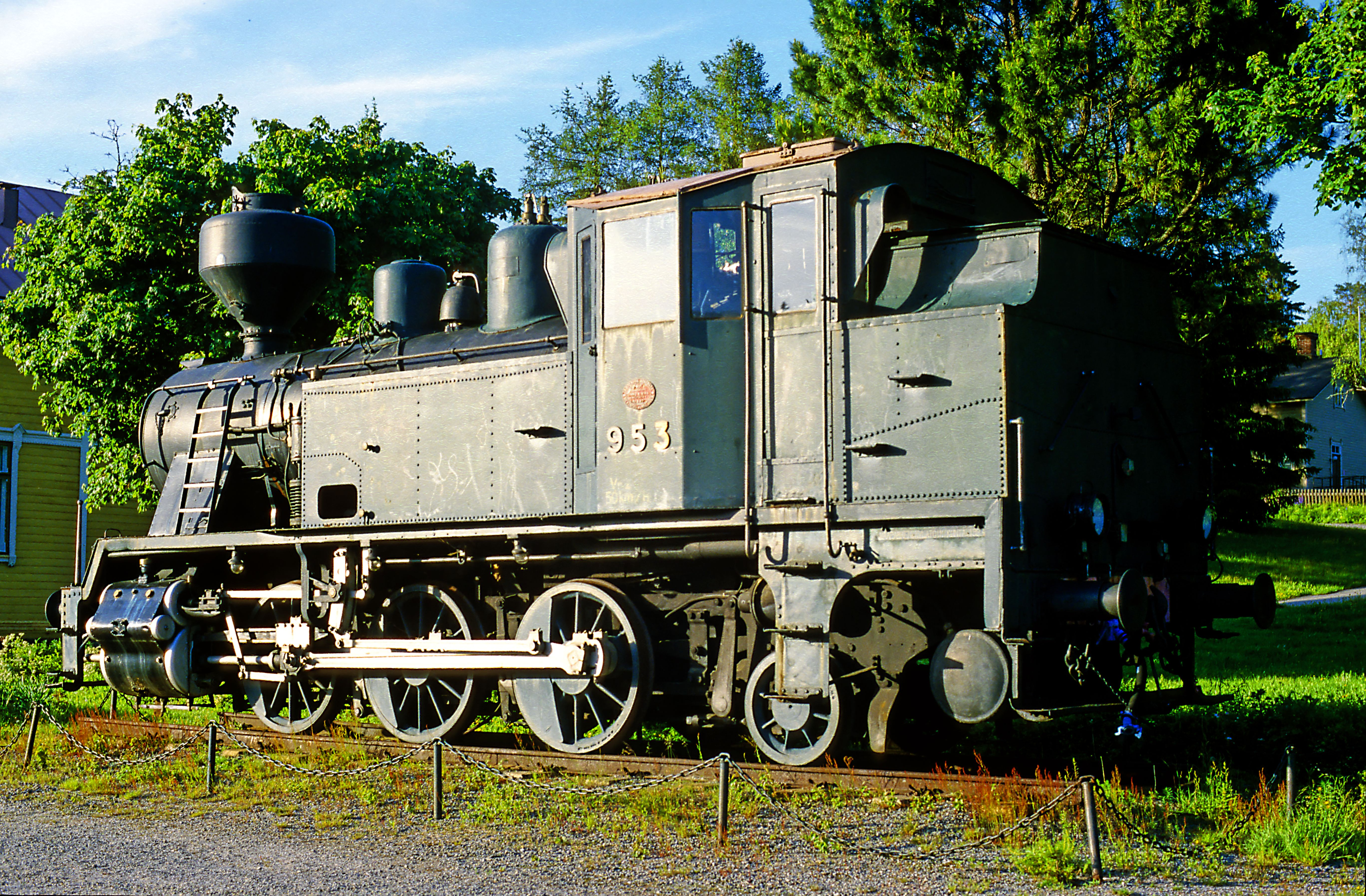 VR Class Vr2 steam locomotive (no. 953) at Haapamäki Steam Locomotive Museum in Keuruu, Finland.